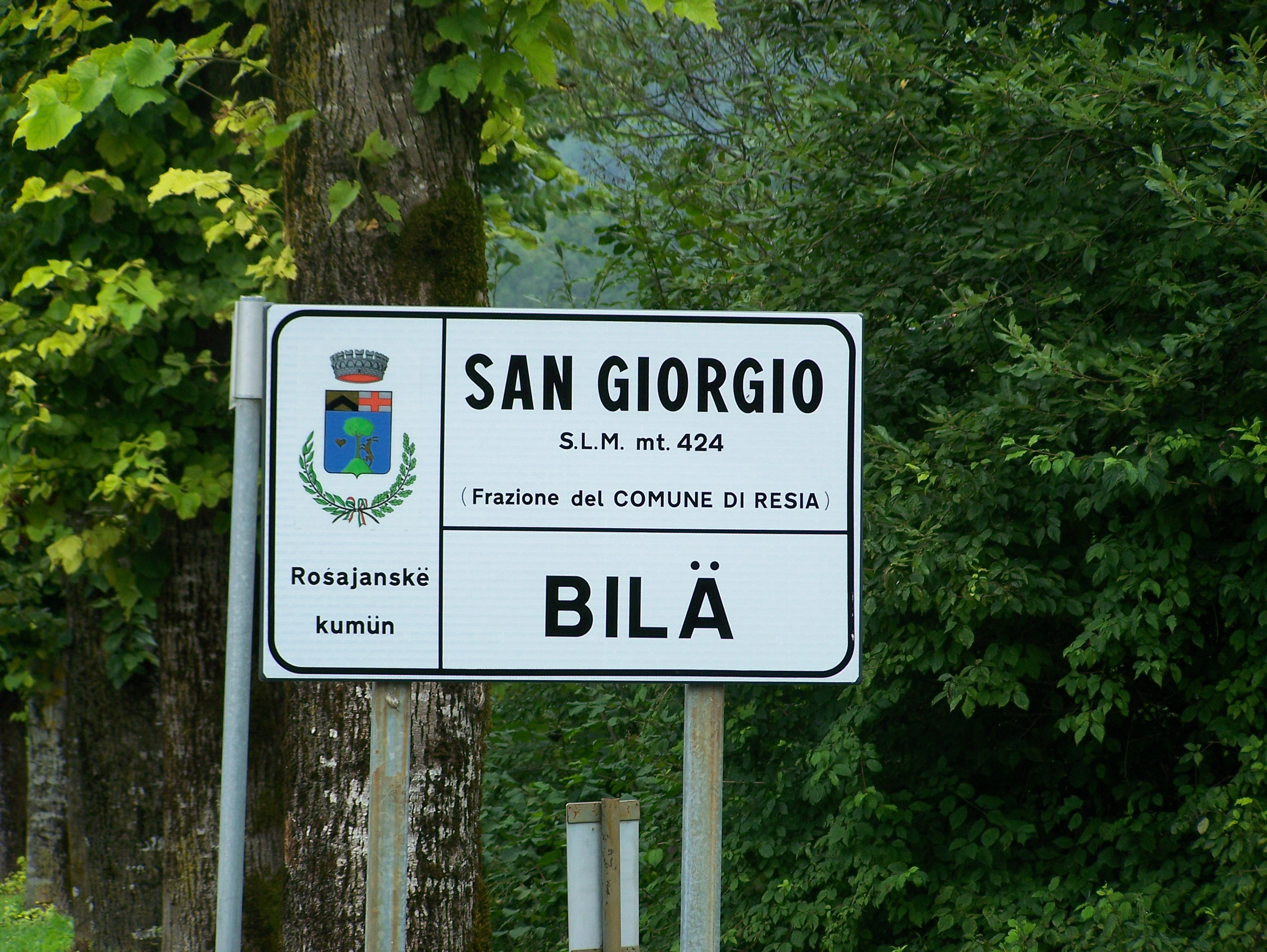 Bilingual road sign in Resia, Friuli, Italy. Furlan: Cartel stradâl bilengâl al inizi dal paîs di San Giorgio/Bilä, in comun di Resie.